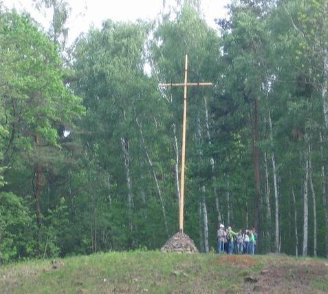 Cross named Spinous crown on the hill above former settlement Ležáky.